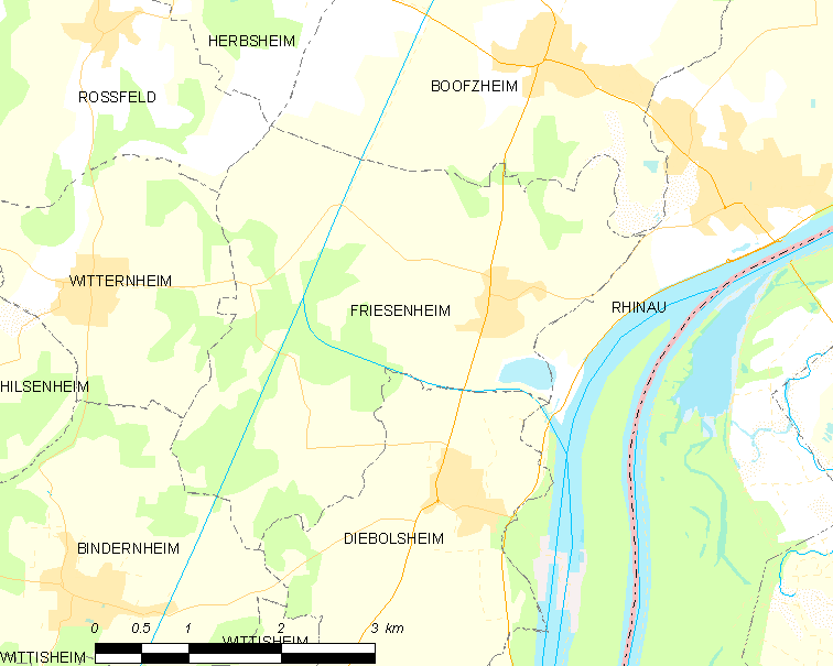 Map of French municipality